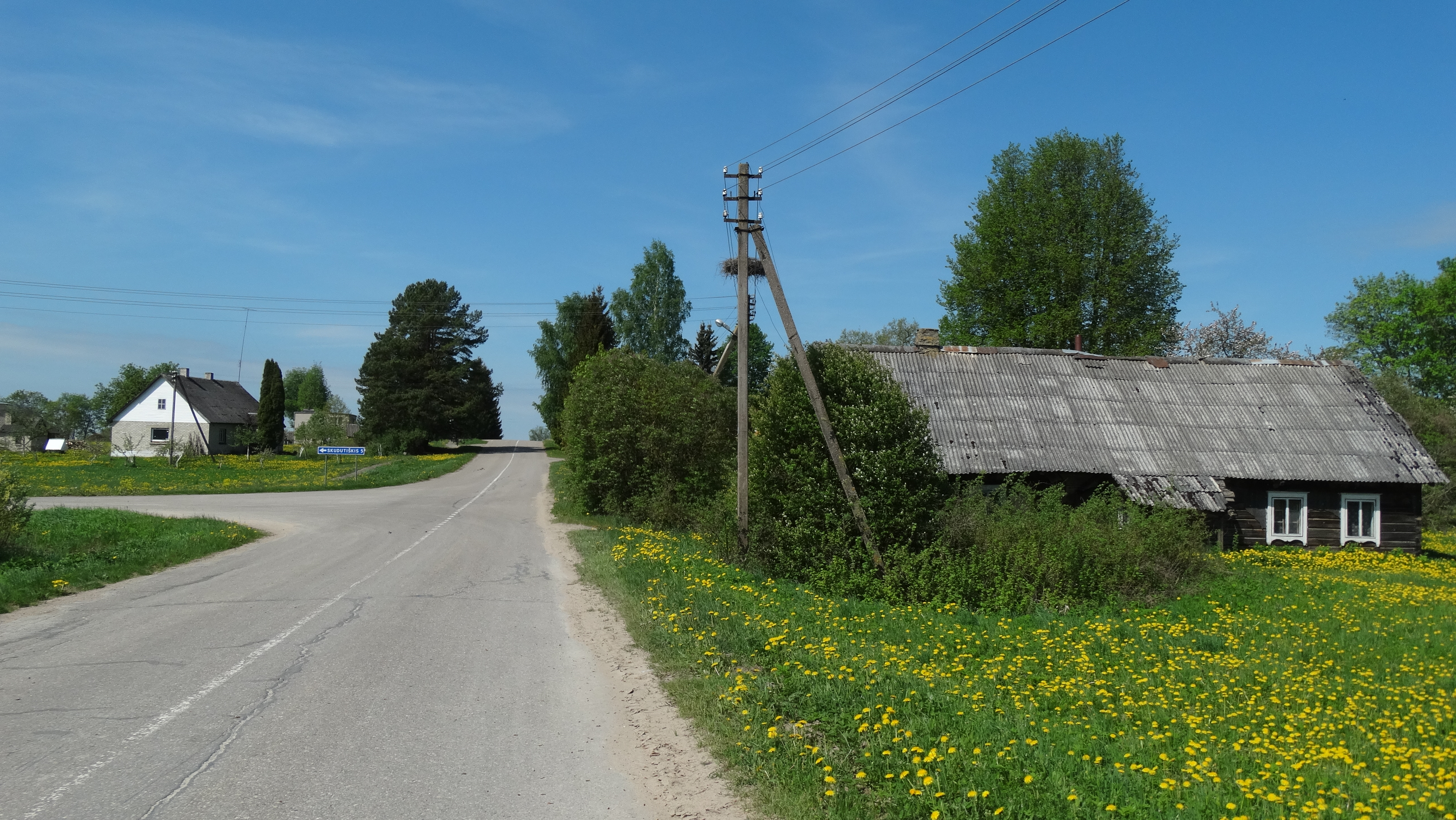 Kaniūkai, Molėtai District, Lithuania